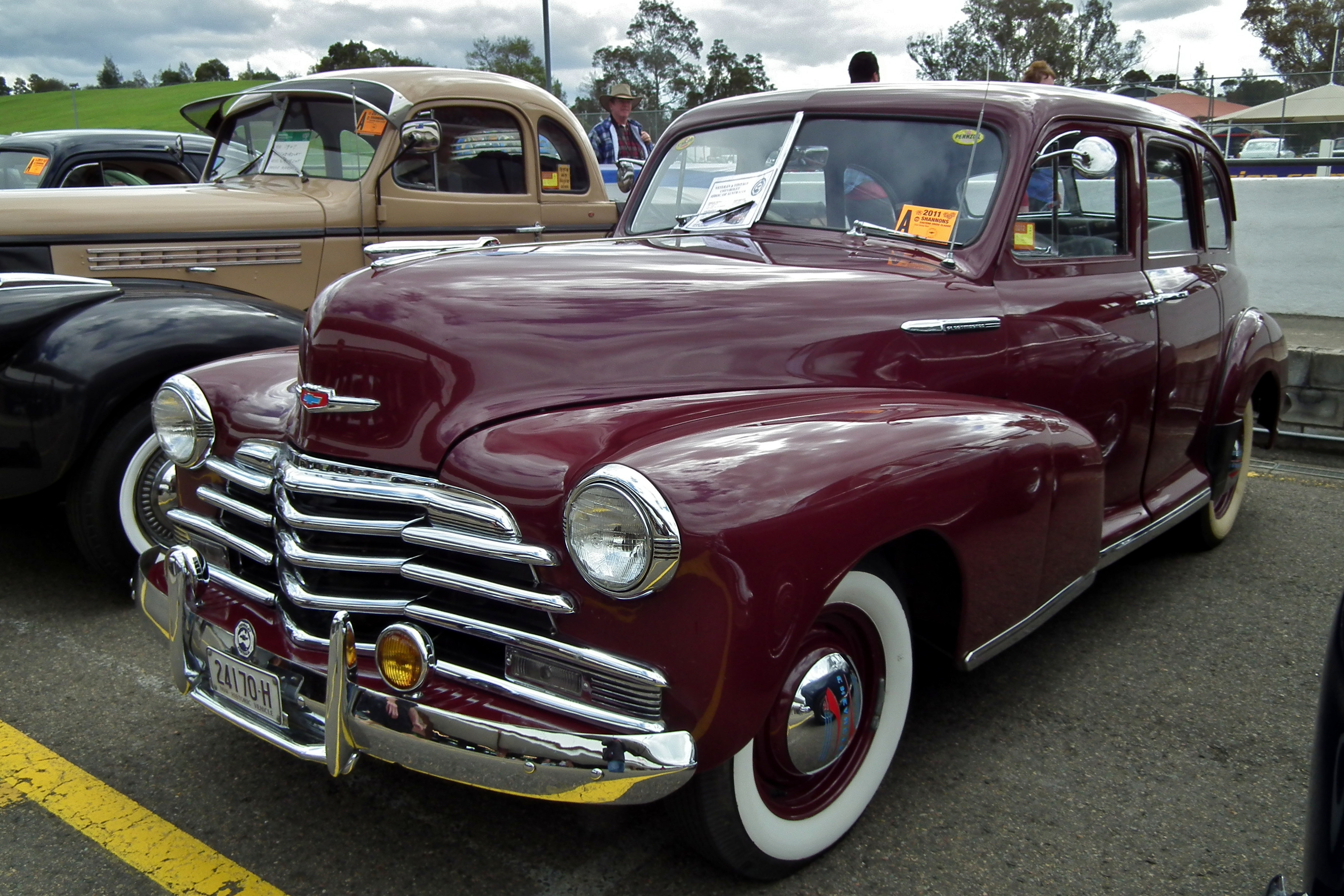 1947 Chevrolet Fleetmaster sedan. Taken at Shannon's Eastern Creek Classic 2011, held at Eastern Creek Raceway Sydney.